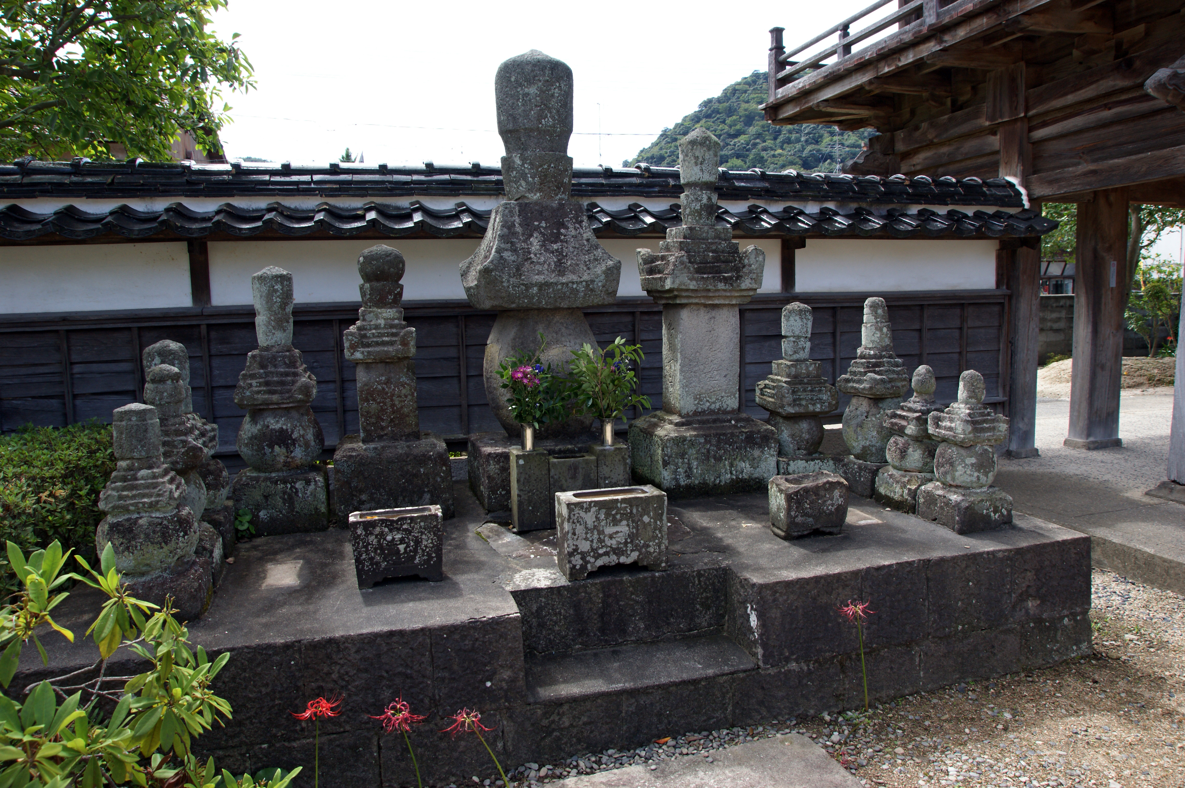 Daigakuin in Kurayoshi, Tottori prefecture, Japan